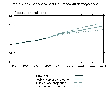 Graph showing the projected population growth of the Auckland Region from 2011 to 2031